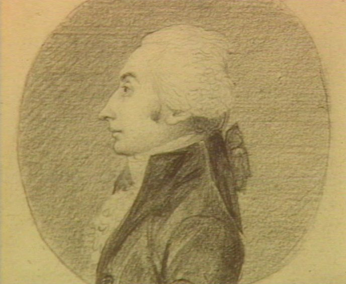 François-Pierre Blin (1756-1834), French deputy in 1789-1791: drawing by Charles Toussaint Labadye (detail).